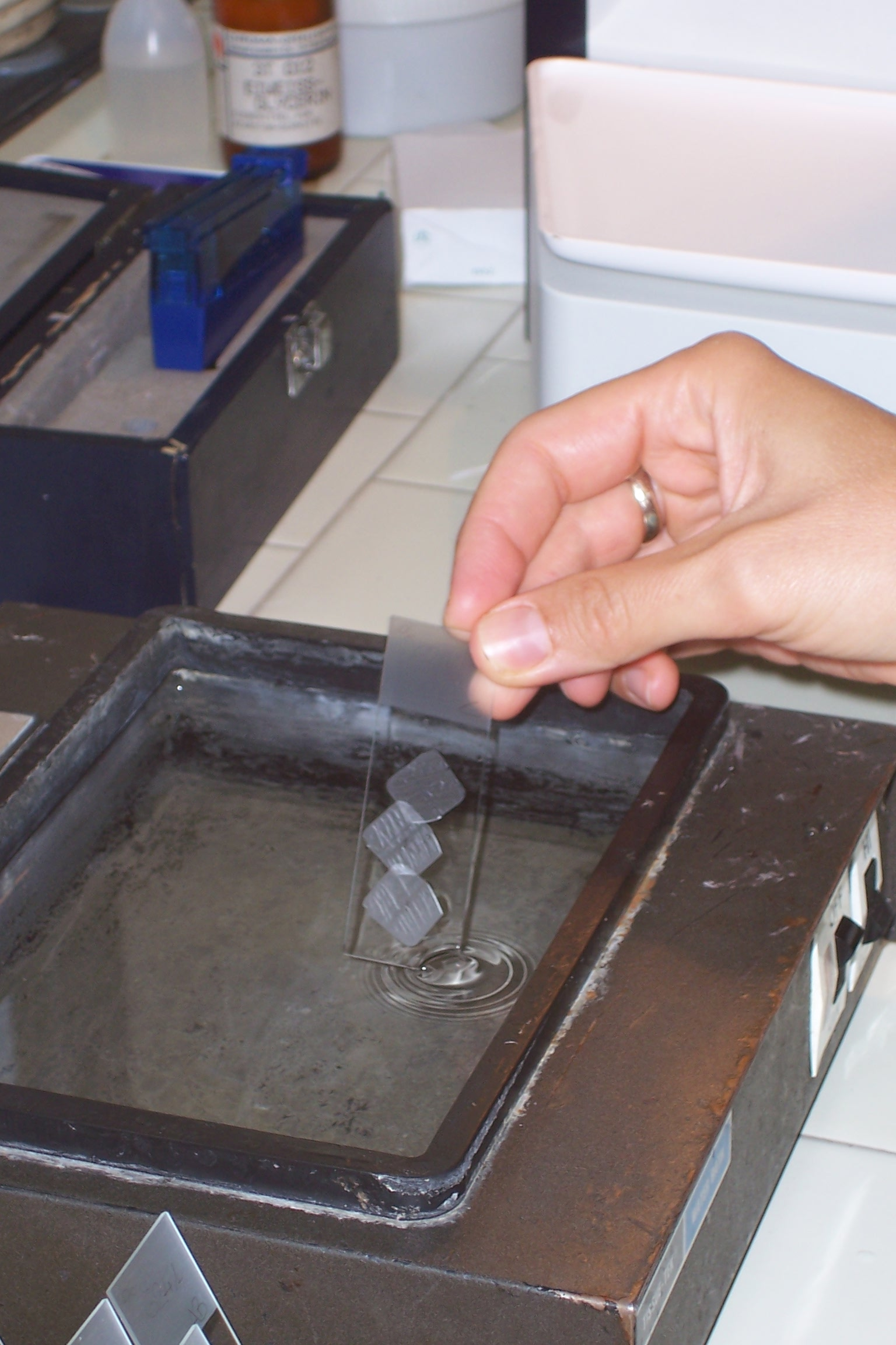 Lab. of Pathology - Monfalcone Hospital (Italy). How histological slides are prepared in practice. Sections are collected from a water bath